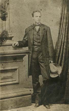 Major John Pelham (1838-1863), Confederate Army artillery officer in the American Civil War